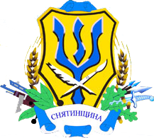 Coat of arms of Sniatyn Raion